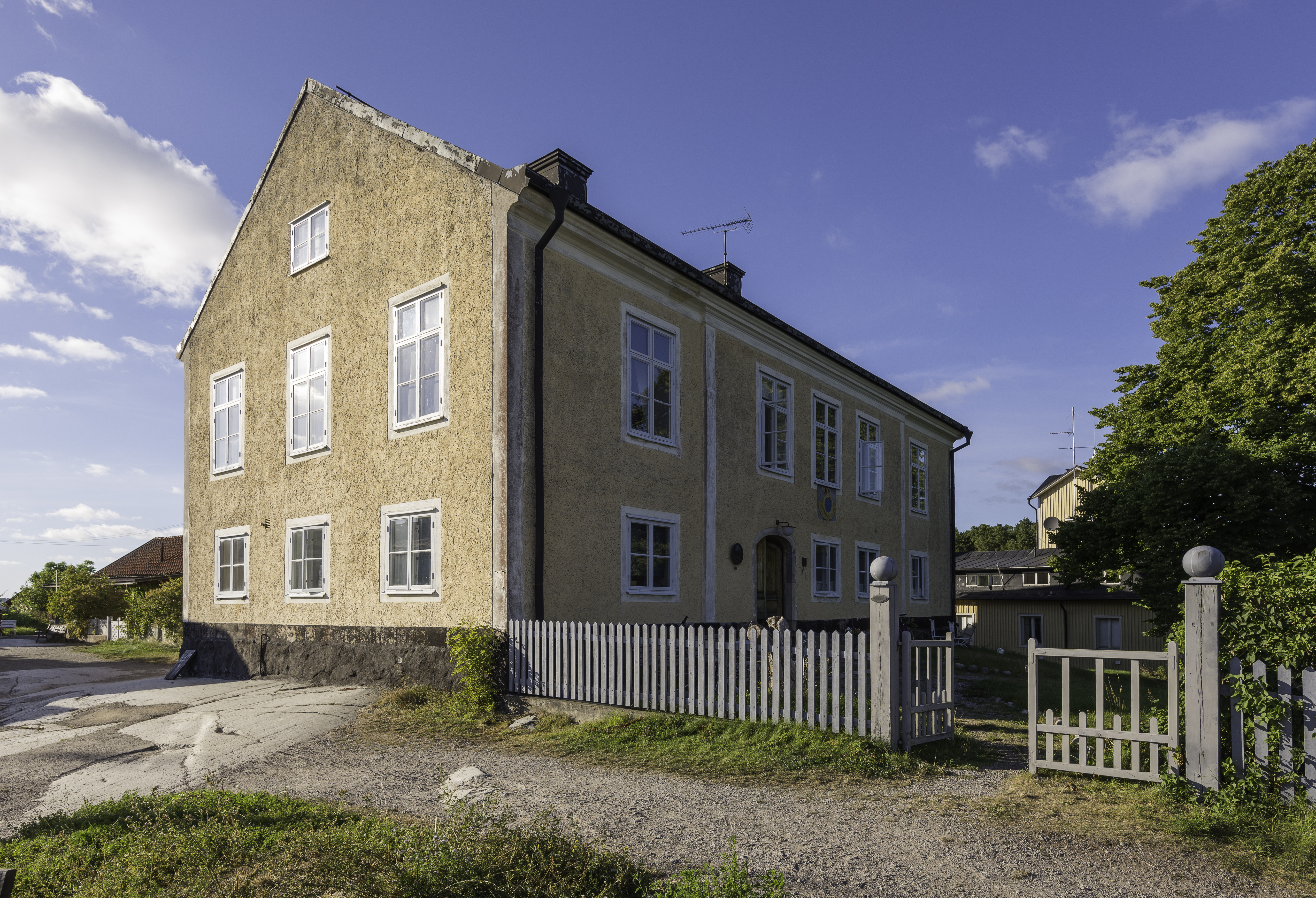 Former custom building in Sandhamn, Stockholm archipelago. Built 1752. Architect Carl Hårleman